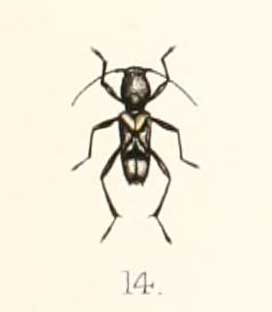 « Xylotrechus x-maculatus » = Calanthemis gabonicus